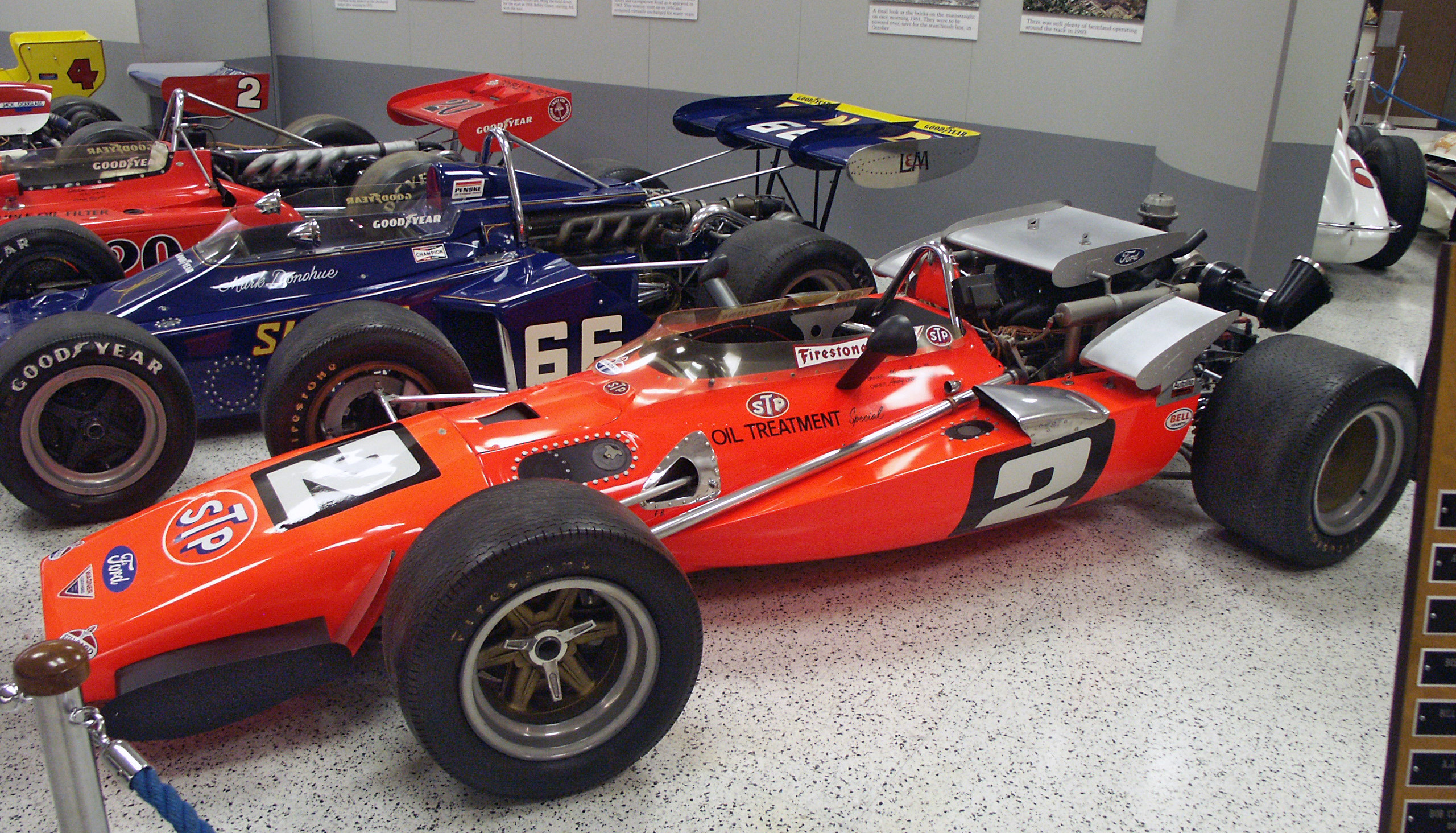 An exact replica of the Brawner Hawk in which Mario Andretti won the 1969 Indy 500 resides in the Indianapolis Motor Speedway Hall of Fame Museum.